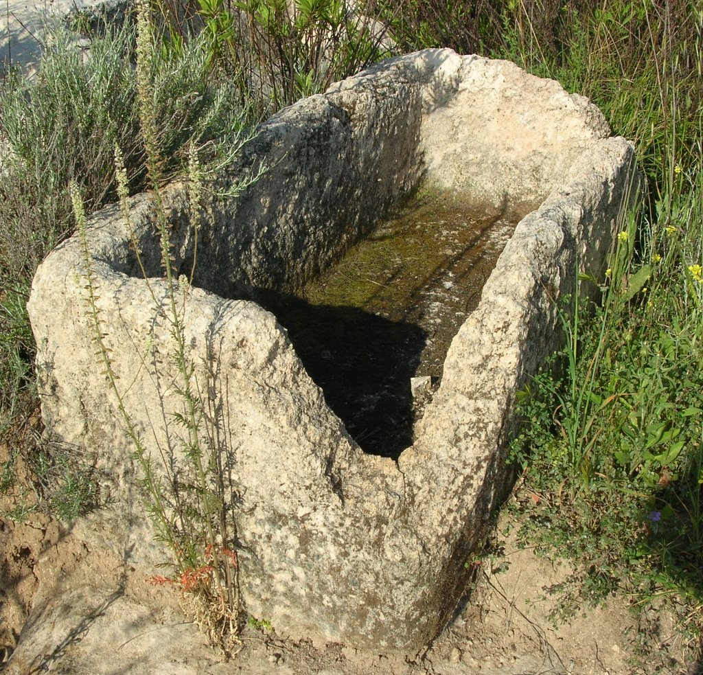 Old Modiin